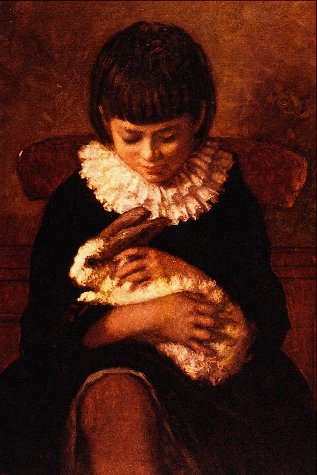 Child with Rabbit